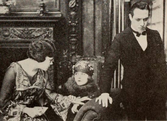 Still from the American film For Better, for Worse (1919) with Gloria Swanson, Wanda Hawley, and Elliott Dexter, on page 47 of the May 10, 1919 Exhibitors Herald.